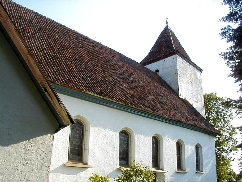 Valtaiķi church